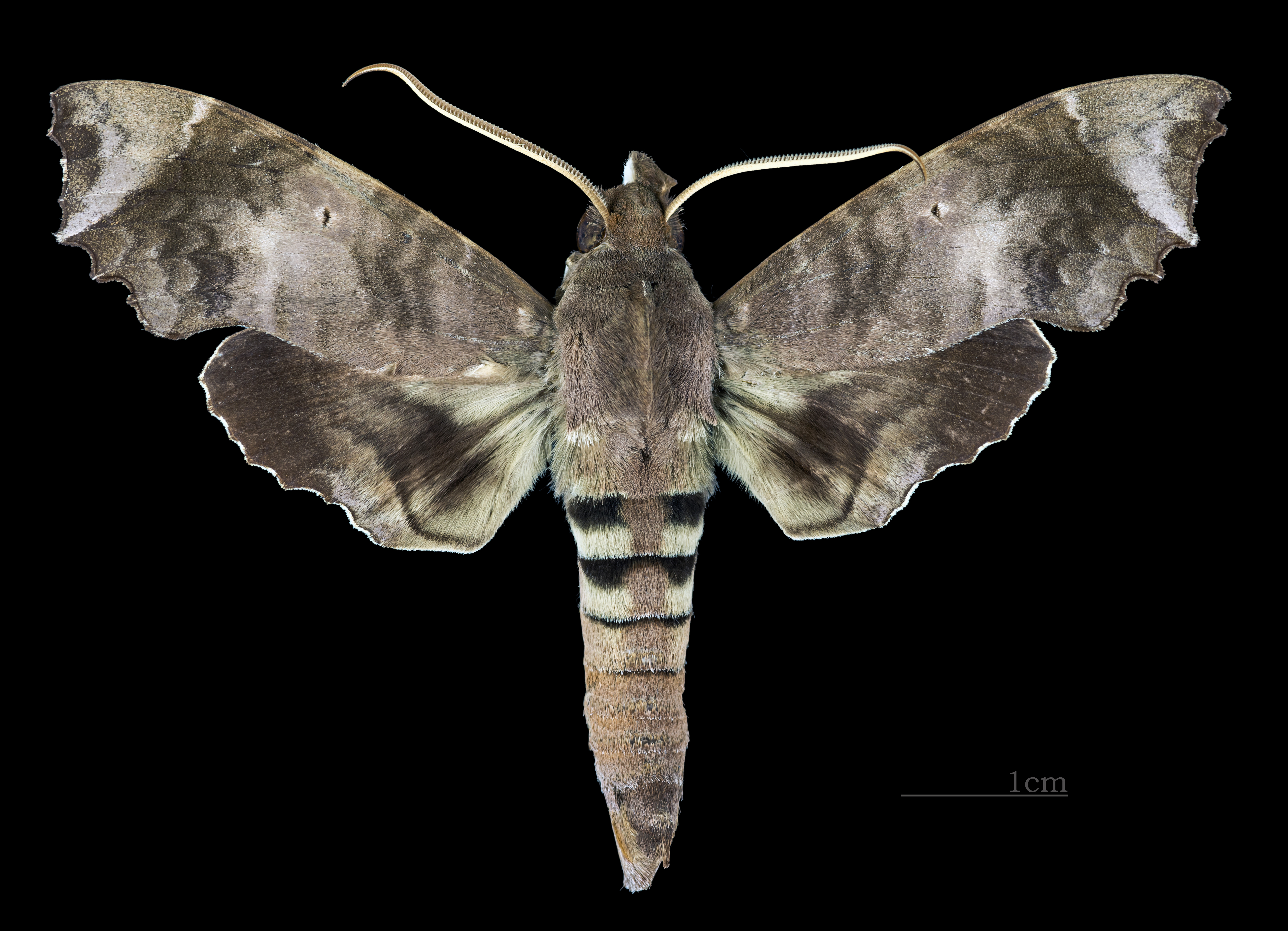 Aleuron carinata - Dorsal side